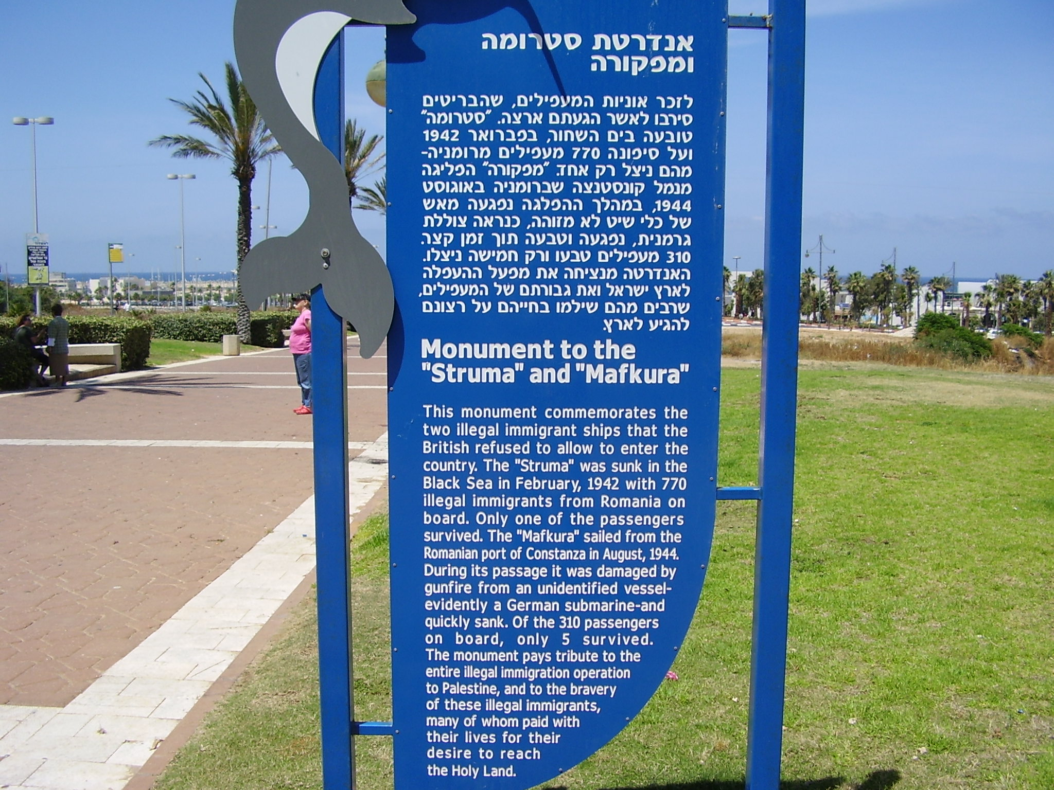 monument to the Struma (ship) and Mefkure in Ashdod, Israel.